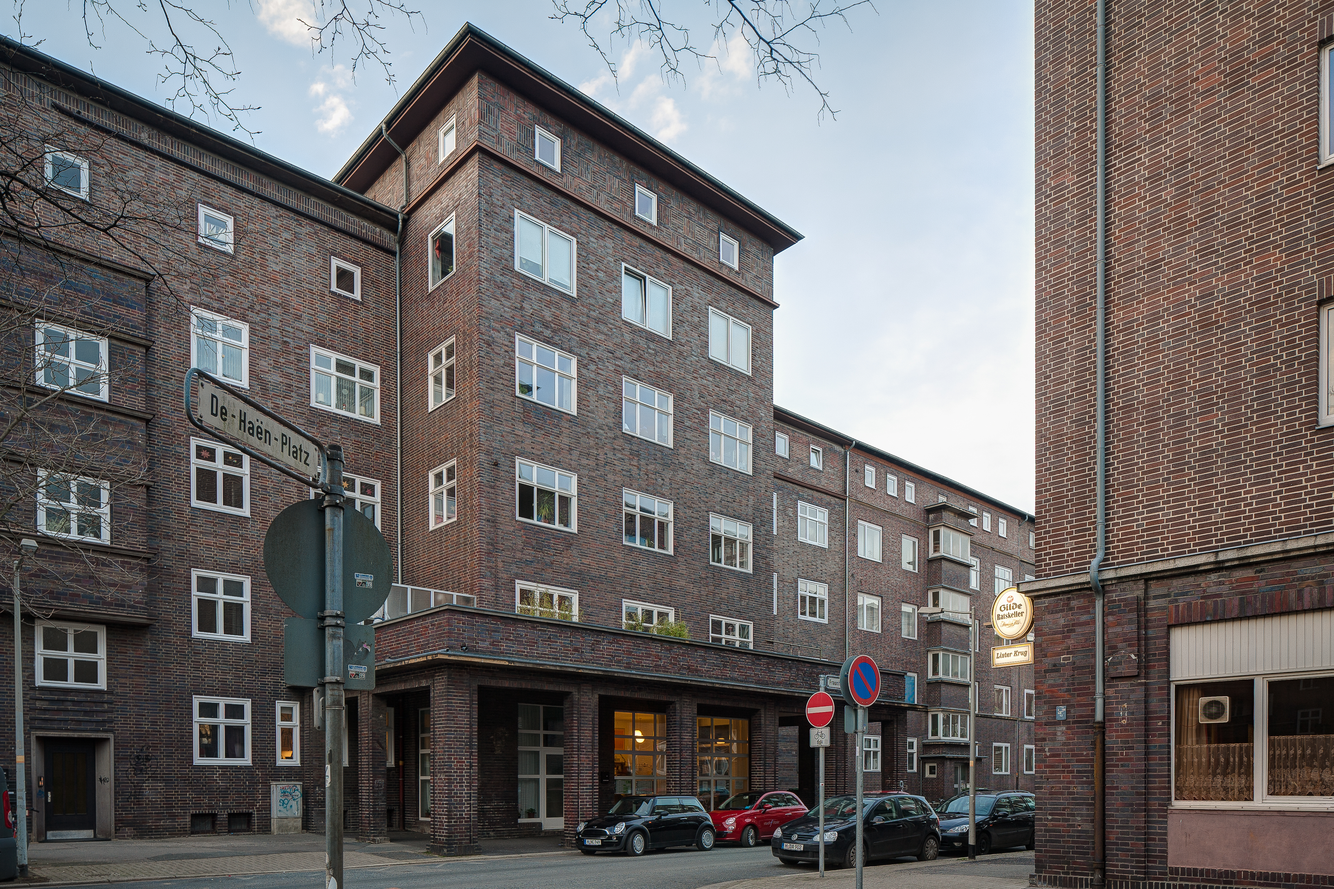 Apartment building at the De-Haen square in List district, Hanover, Germany.